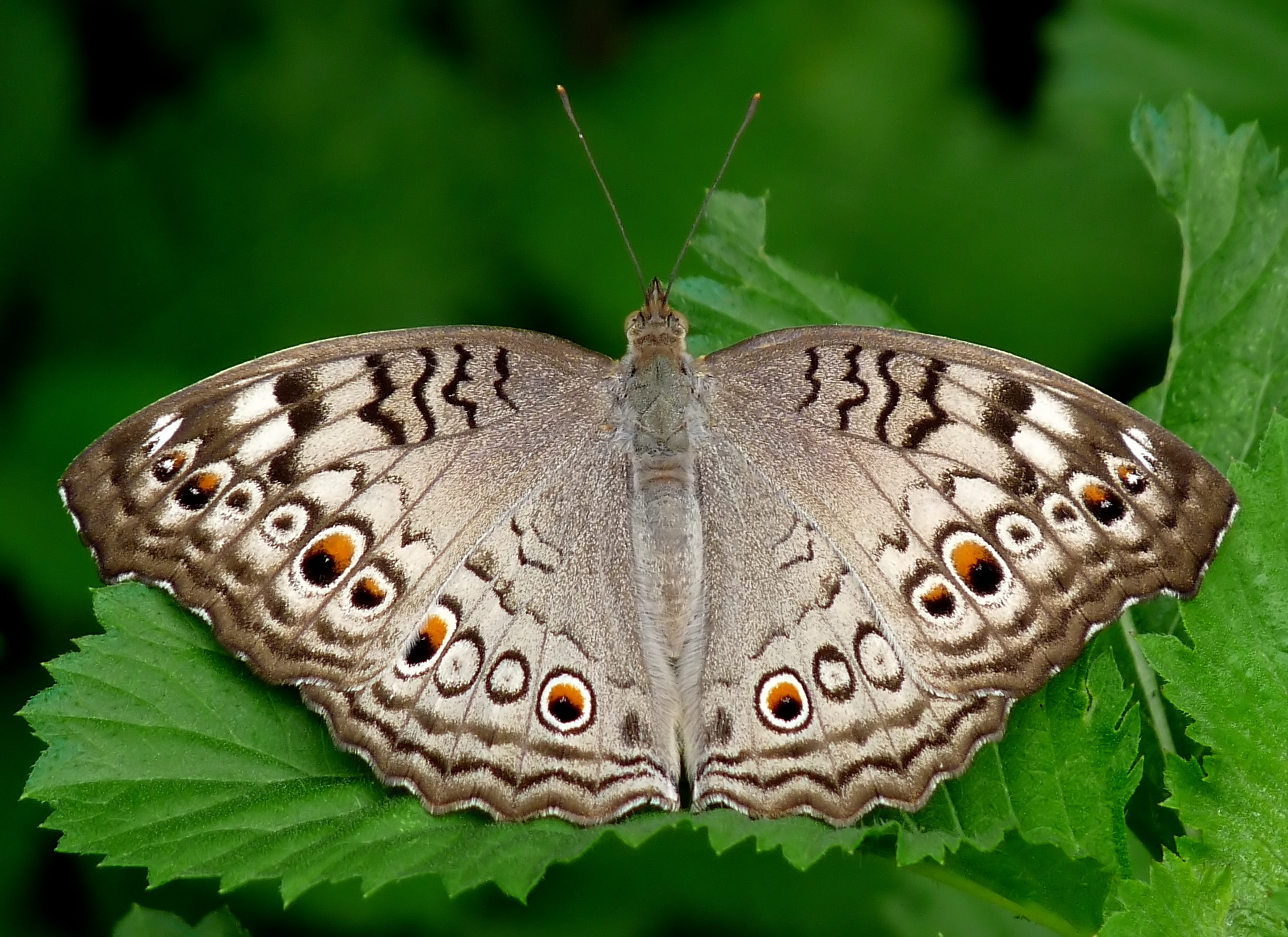 The Gray Pansy or Grey Pansy (Junonia atlites) is a species of nymphalid butterfly found in South Asia. Taken at Kadavoor, Kerala, India.